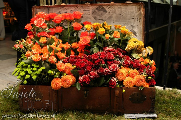 Floral arrangement on 35th Opening of The Rose Festival in 2009.